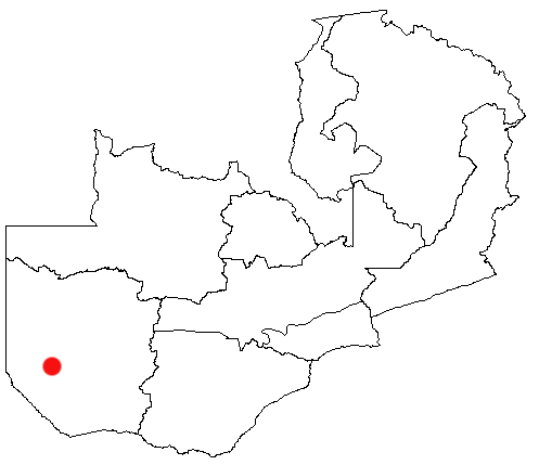 Senanga, Zambia Location Map; created with the GIMP.